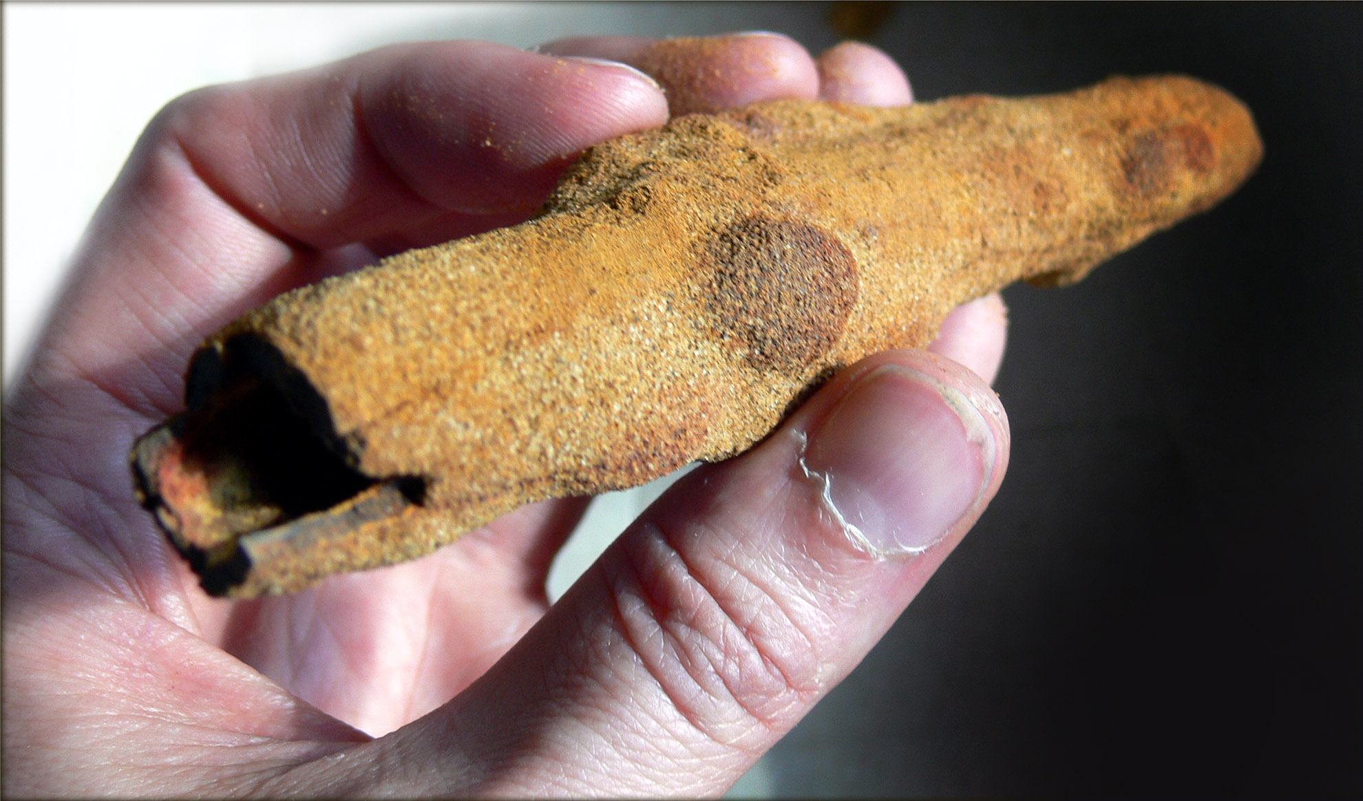 fossil structure, Plateau d'Helfaut, North of France